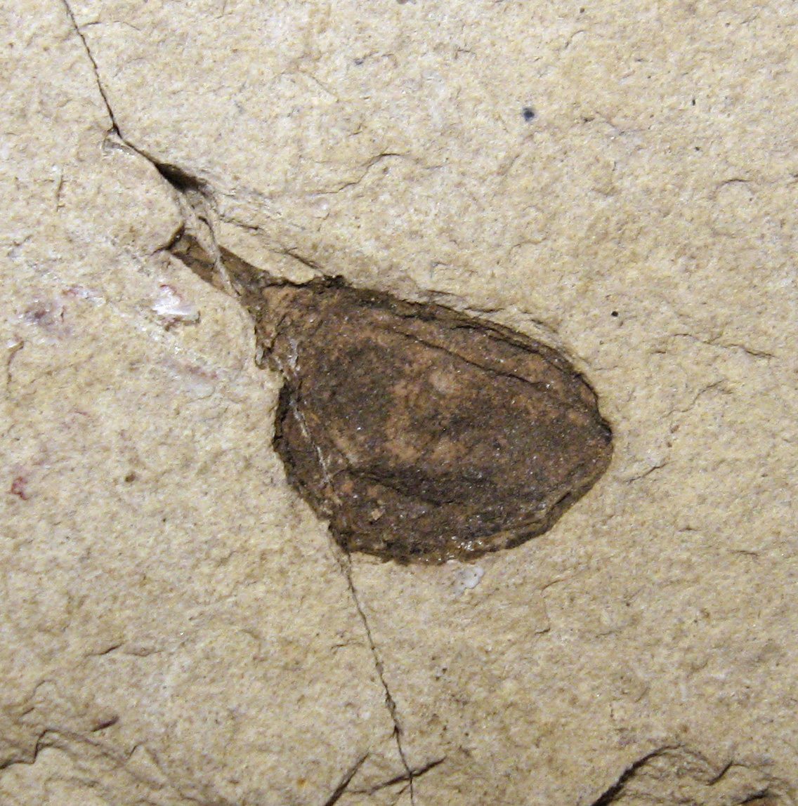 A 1.8cm long fruit from the extinct species Eucommia montana. "Boot Hill", 49 million years old, Klondike Mountain Formation, Republic, Washington, USA. In private collection.